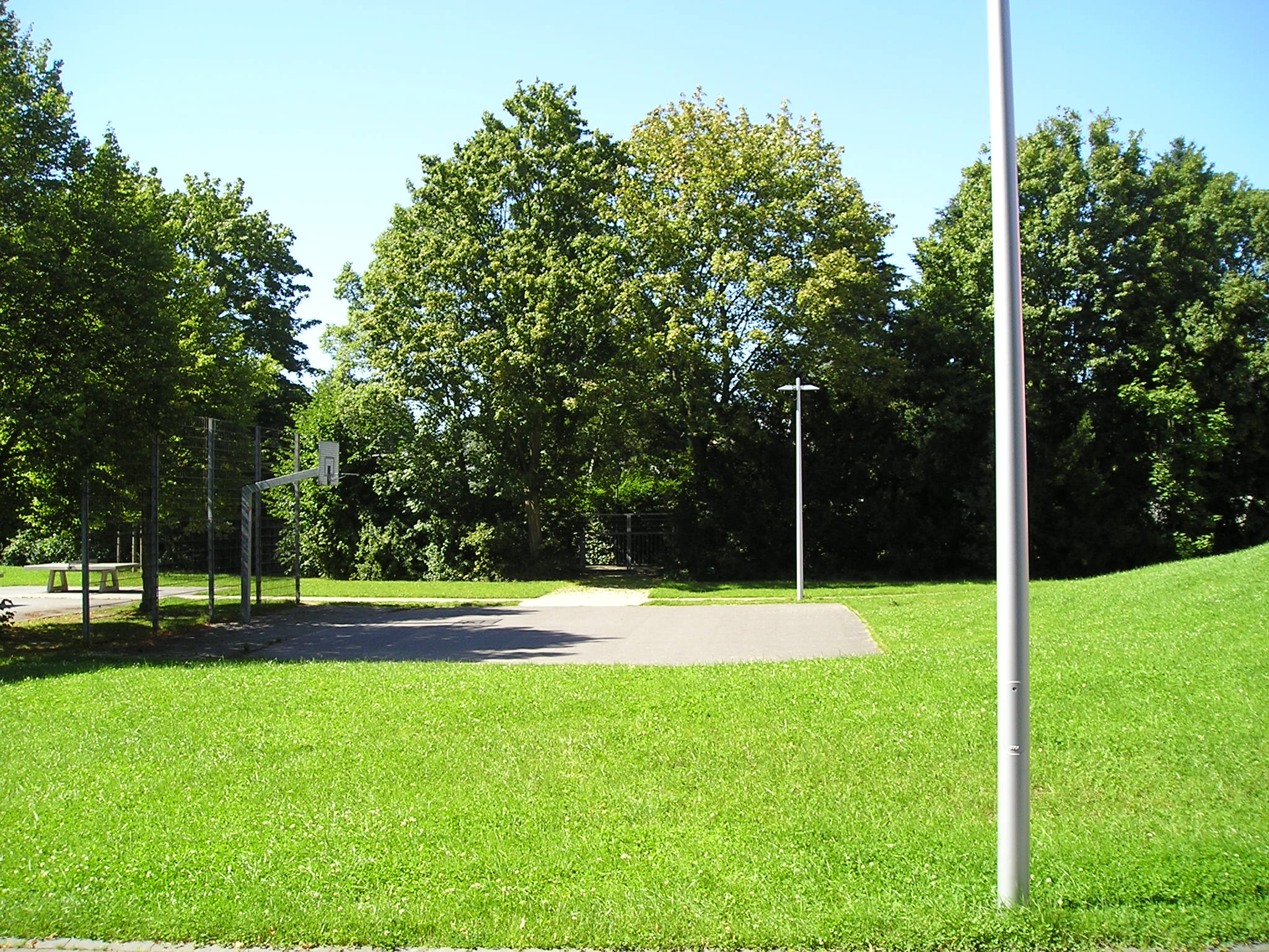 Gymnasium Koblenzer Straße in Düsseldorf: basketball playing field and table tennis table